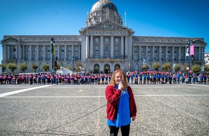 Animal Rights Activist, Zoe Rosenberg (age 17) speaks in front of San Francisco City Hall with hundreds of activists behind as they ask for an Animal Bill of Rights at event organized by Direct Action Everywhere on October 1, 2019